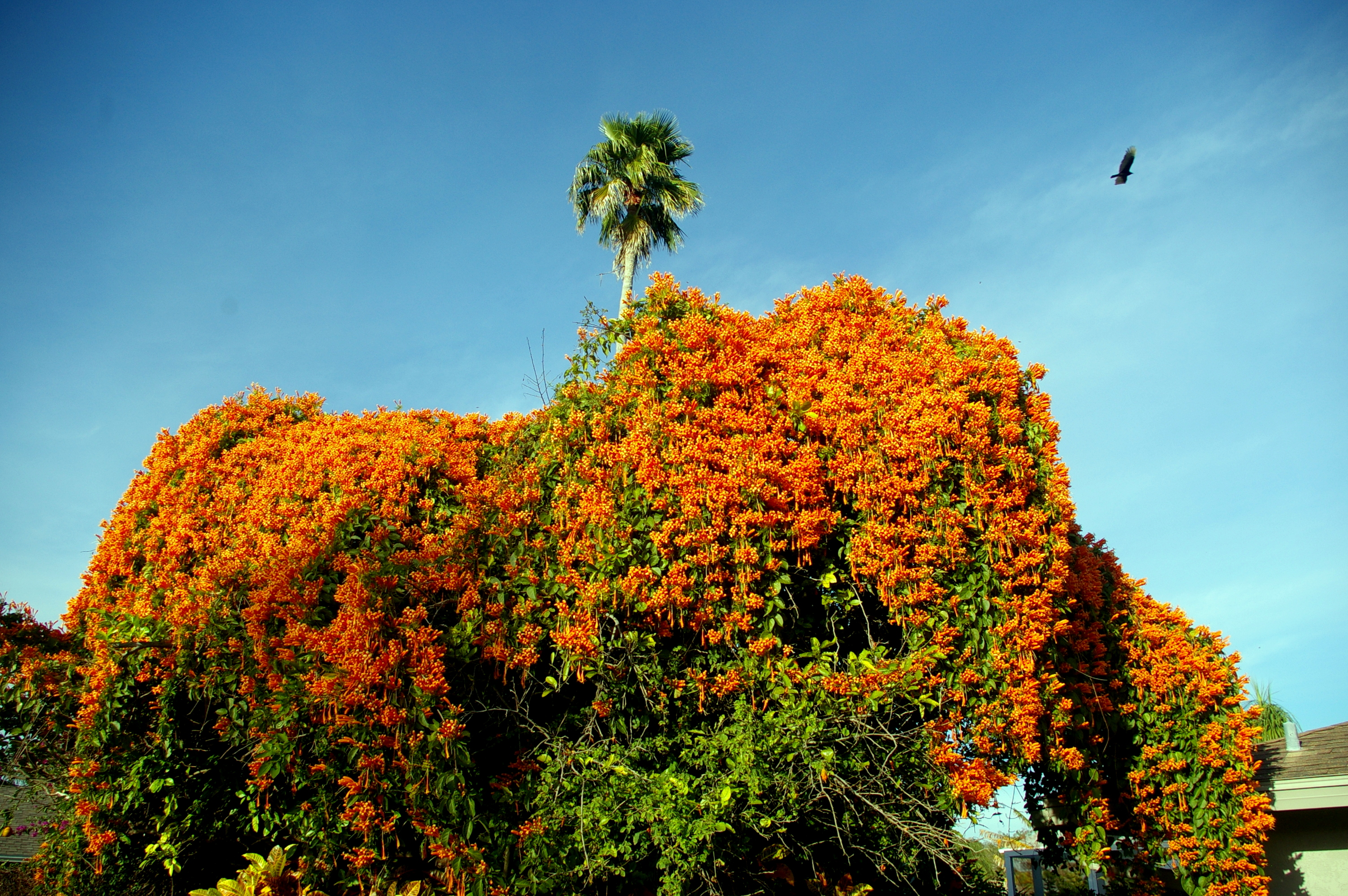 Flame Vine in Sarasota, Florida.